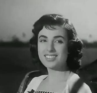 Egyptian singer Najat as Saghira in a screenshot from the film Ghariba.